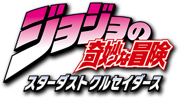 Logo for the second season of the anime adaptation of Hirohiko Araki's comic JoJo's Bizarre Adventure.